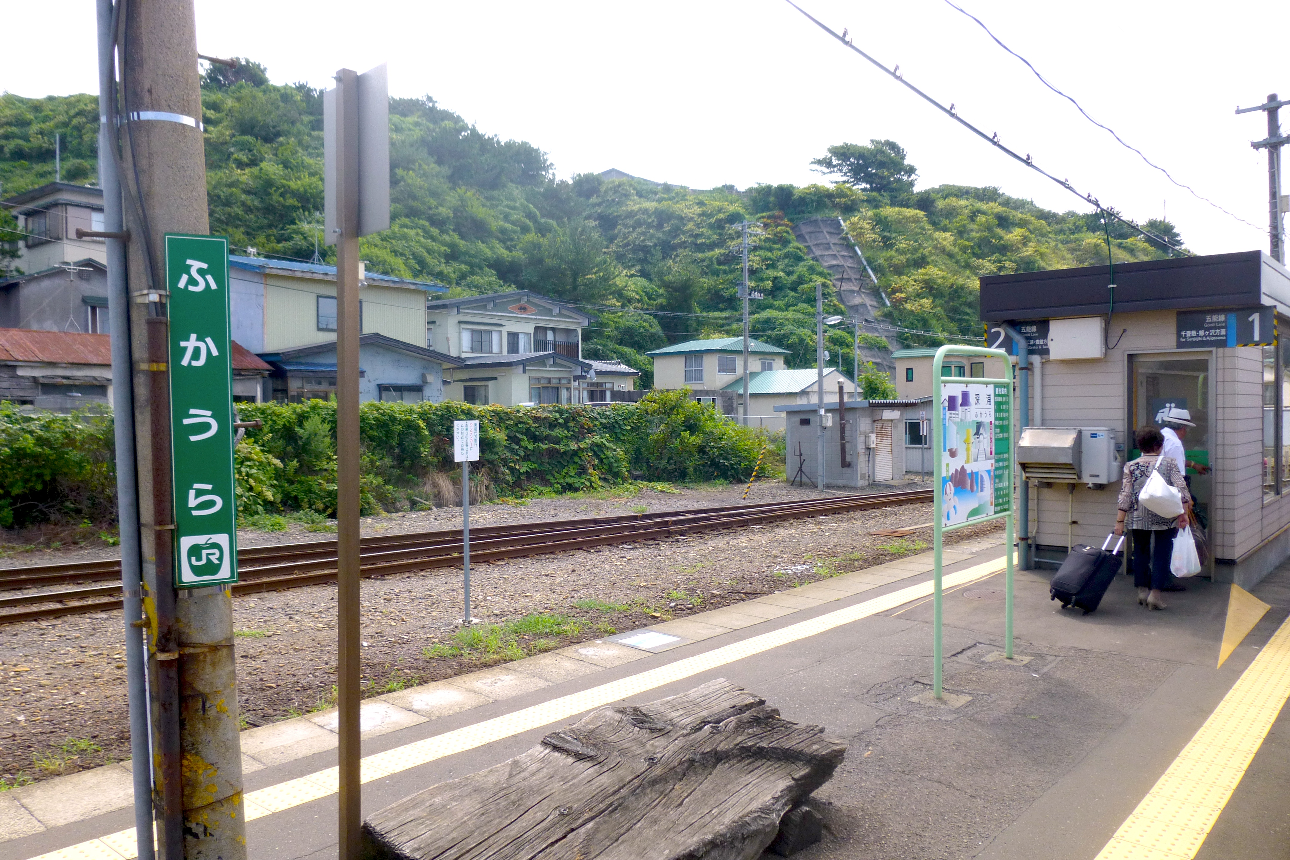 Fukaura Station (深浦駅 Fukaura-eki) is a railway station on the JR East Gonō Line located in the town of Fukaura, Aomori Prefecture Japan.